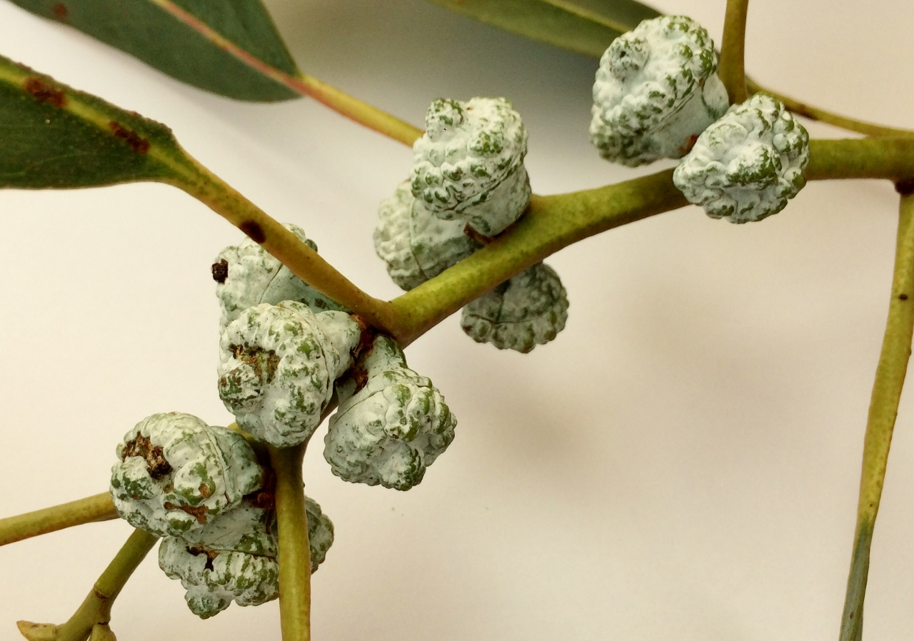 Characteristic 3-bud umbel of the Eucalyptus bicostata (Southern blue gum)